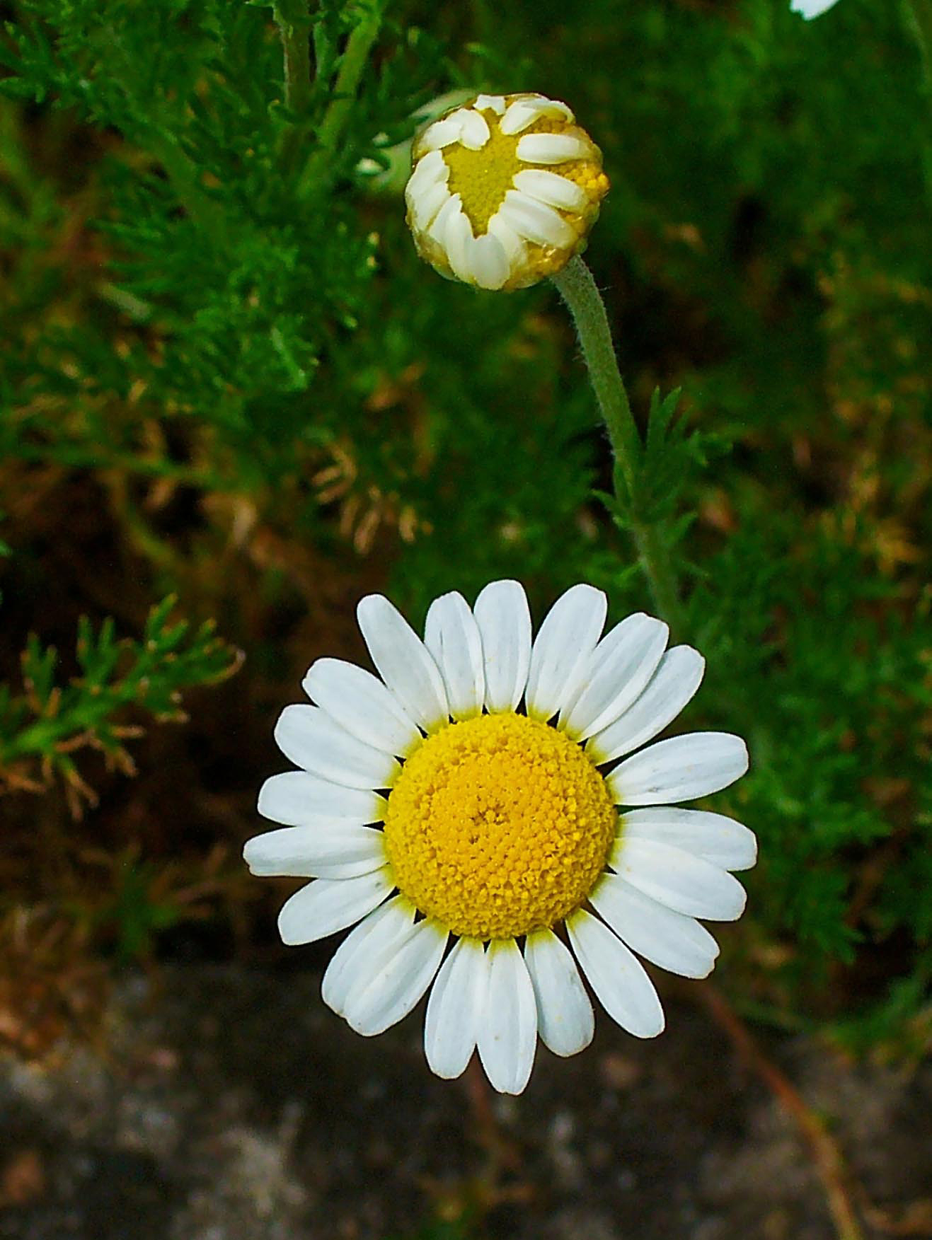 Chamaemelum nobile, Asteraceae, Roman Camomile, Chamomile, Garden Camomile, Ground Apple, Low Chamomile, English Chamomile, inflorescence; Botanical Garden KIT, Karlsruhe, Germany. The fresh aerial parts of the blooming plant are used in homeopathy as remedy: Chamomilla romana (Cham-r.)